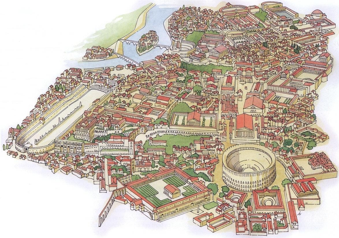 Model of what ancient rome looked like.